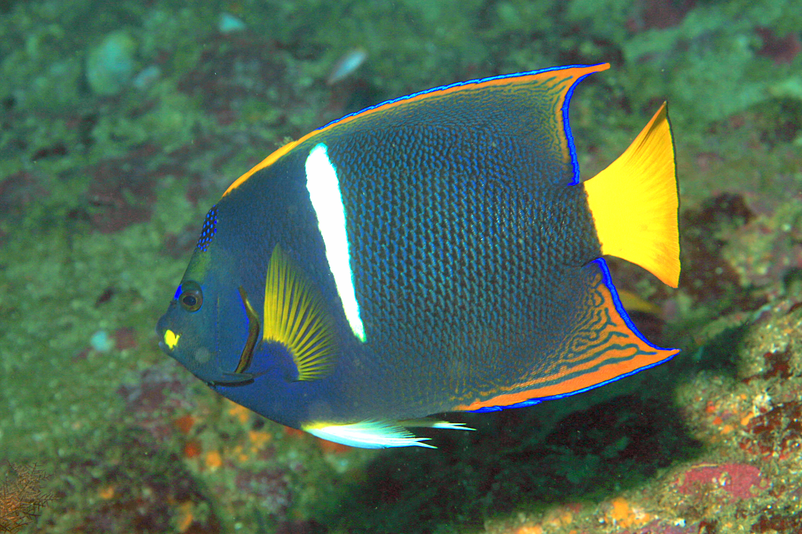 King Angelfish (Holacanthus passer) photographed 5 km offshore from Sta. Catalina, Panama.